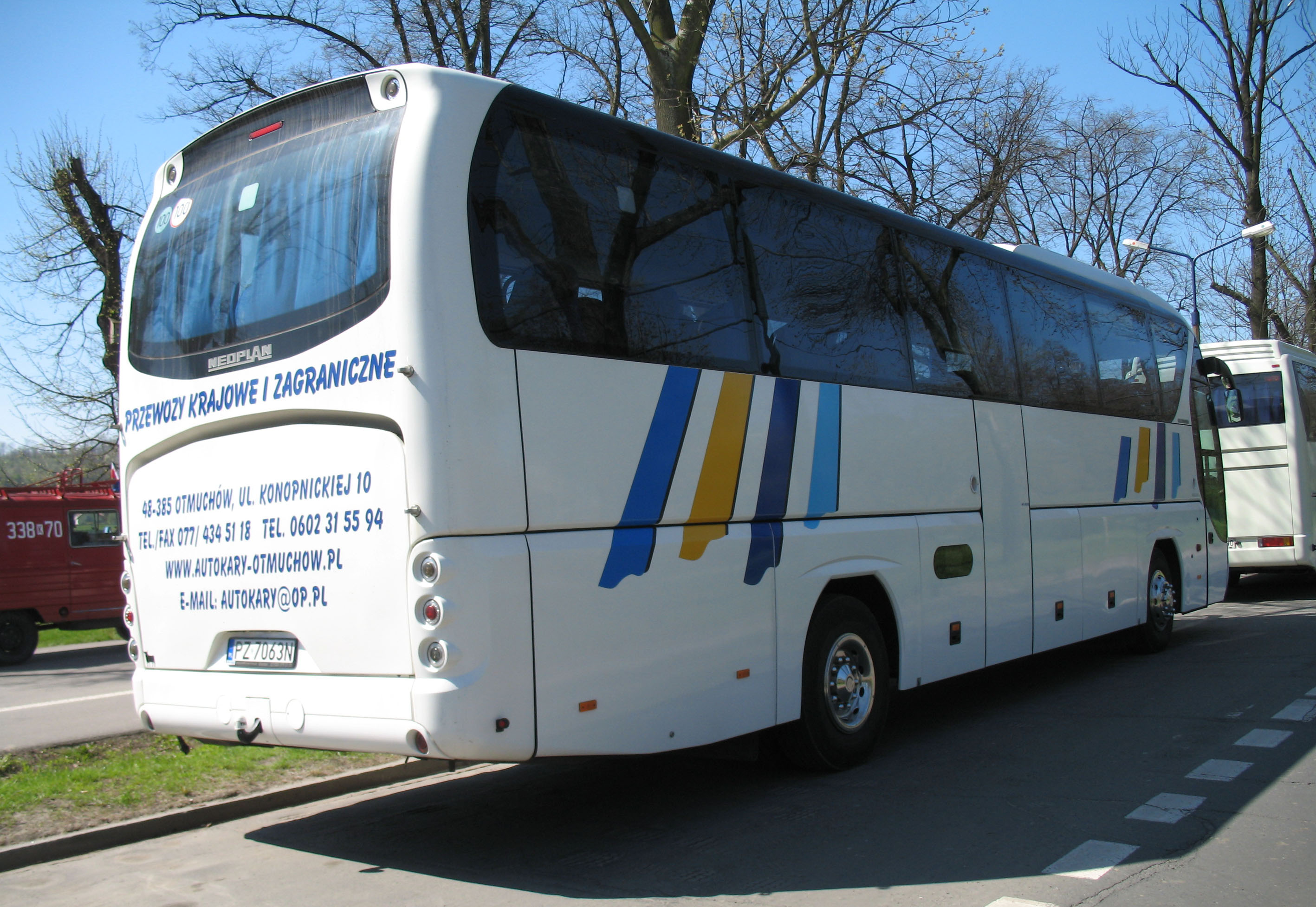 Neoplan Tourliner N2216 SHD coach in Kraków, Poland. Szewczuk Otmuchów operator.